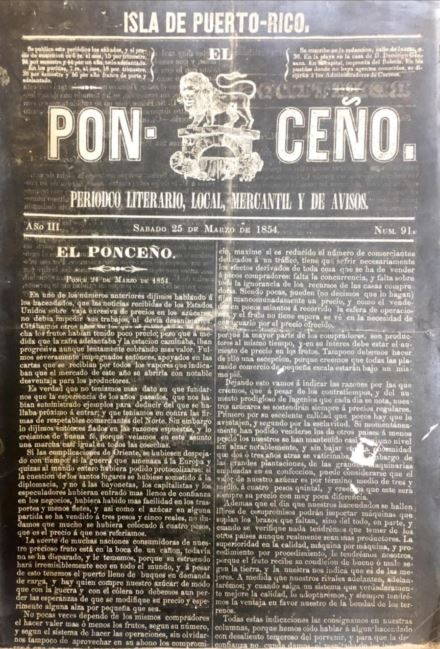 Periódico El Ponceño, Ponce, Puerto Rico, edicion de 25 de Marzo de 1854